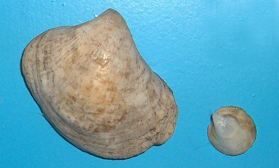 Capulus ungaricus, a sea snail from the family Capulidae